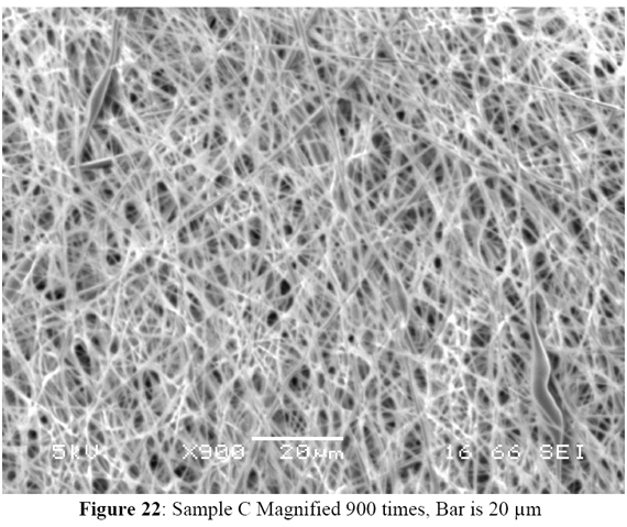 SEM Image of Electrospun PVC (90%) and PEO (10%) Nanofibrous Membrane